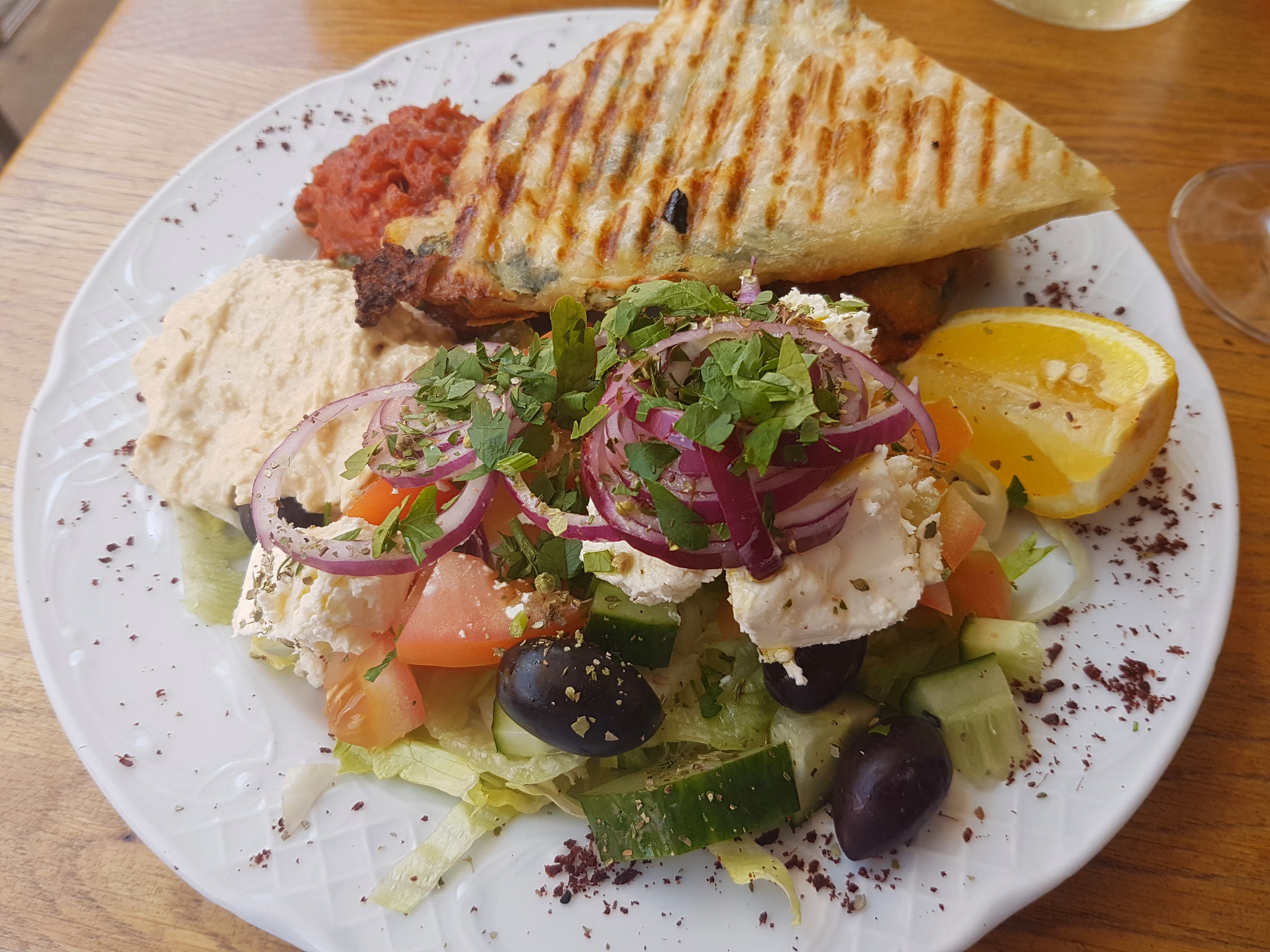 PAPAS special appetizer plate, hummus, borek, ezme, baked zuchini, farmer's salad with sheep's cheese and olives. Photographed in the restaurant PAPAS at the Naschmarkt in Vienna.